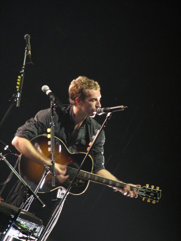 Chris Martin in Hong Kong, 2006.